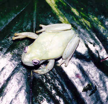 Hypsiboas punctatus